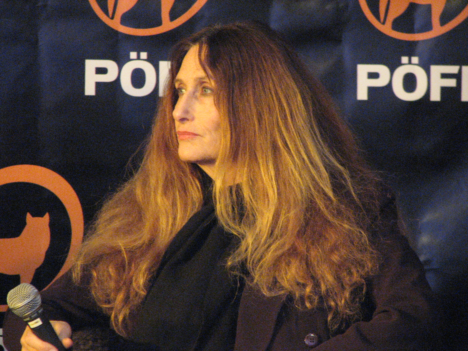 Vibeke Løkkeberg performing in Tallinn Black Nights Film Festival